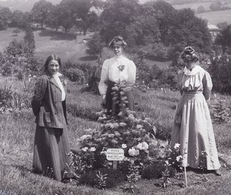 Suffragettes Adela Pankhurst, Jessie and Annie Kenney 1910. This picture was taken by Colonel Linley Blathwayt and was stored on glass negatives. The Blathwayt's home of Eagle House way the home of Linley, Emily, William and Mary Blathwayt who all actively supported the suffragette cause. Nearly all the prominent UK suffragettes stayed with them and these photos and dozens of trees were planted to commemorate their visits. Col. Linley Blathwayt took these pictures between 1908 and 1912. He died in 1919. The pictures are made available in larger formats by .